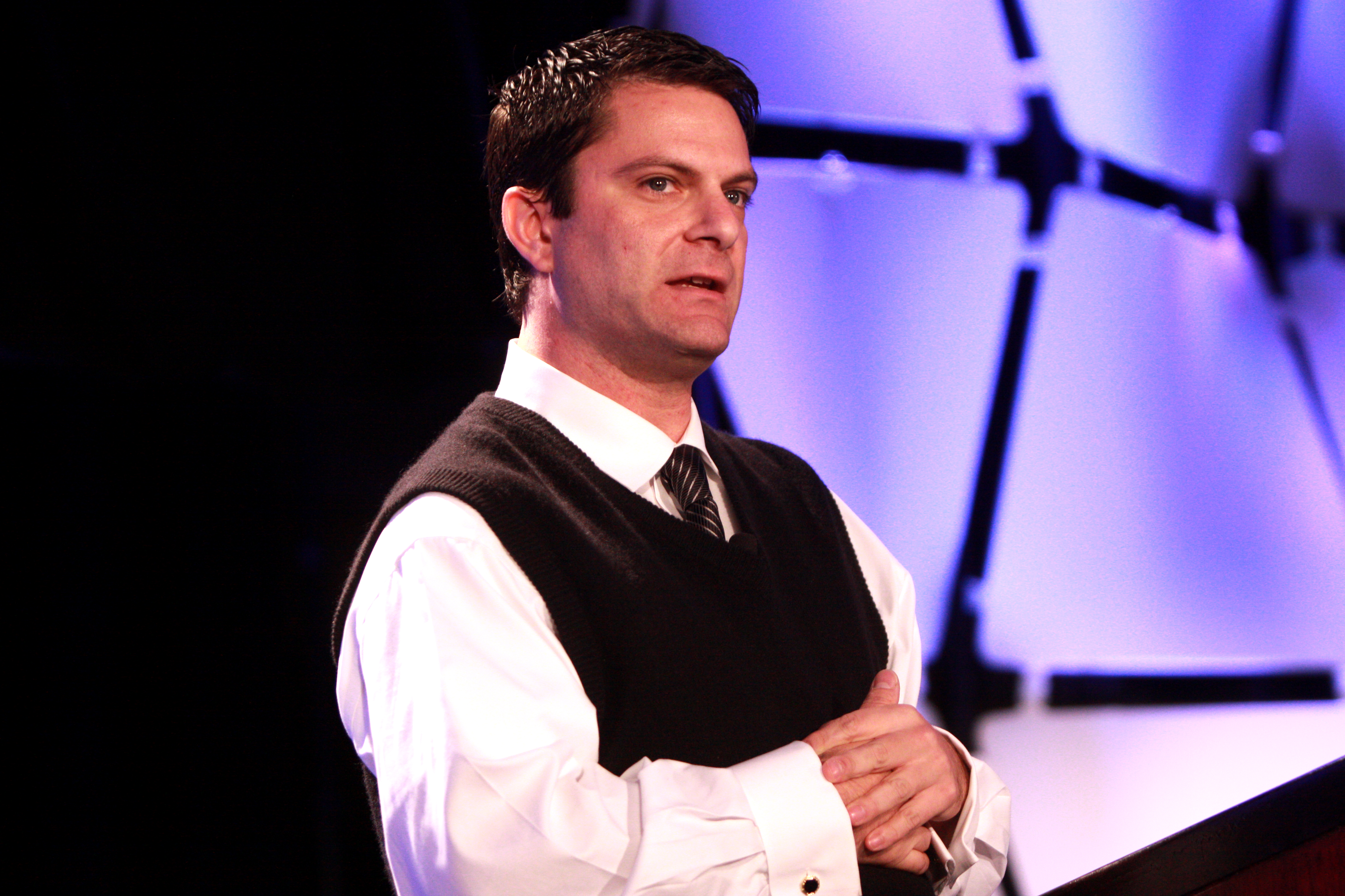 Ladar Levison speaking at the 2013 Liberty Political Action Conference (LPAC) in Chantilly, Virginia.